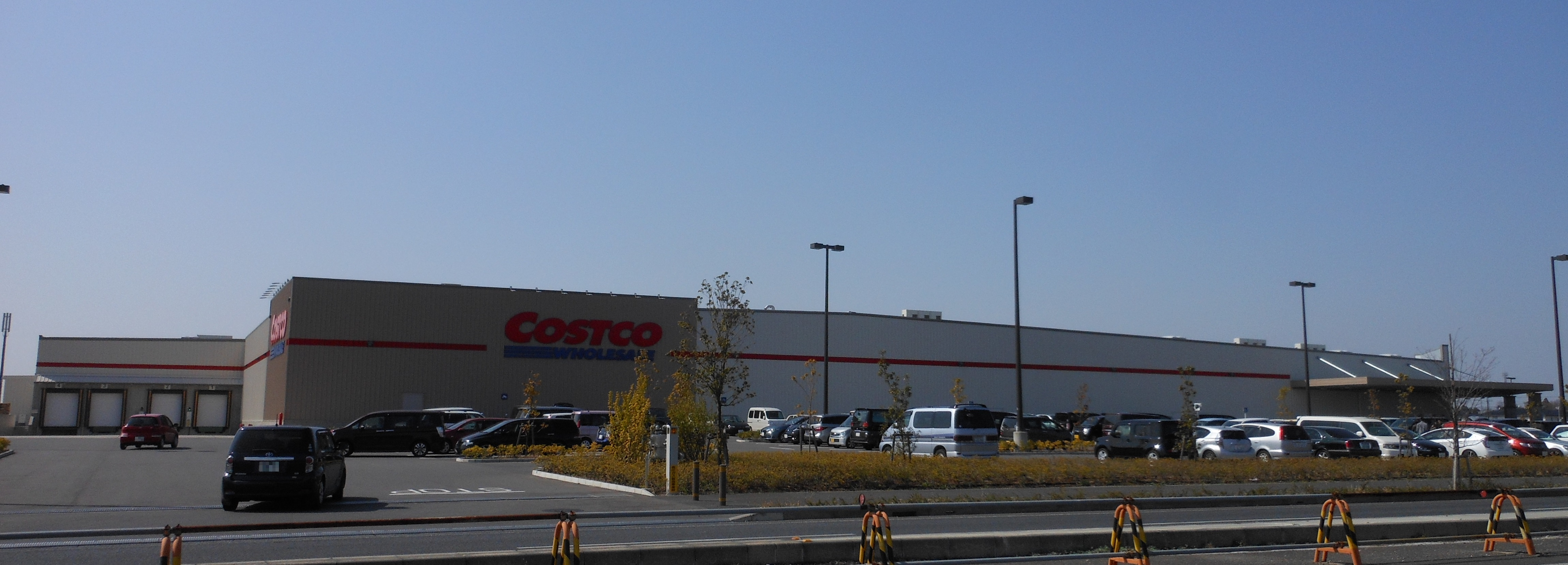 This is Costco Tsukuba Warehouse in Tsukuba, Ibaraki, Japan.